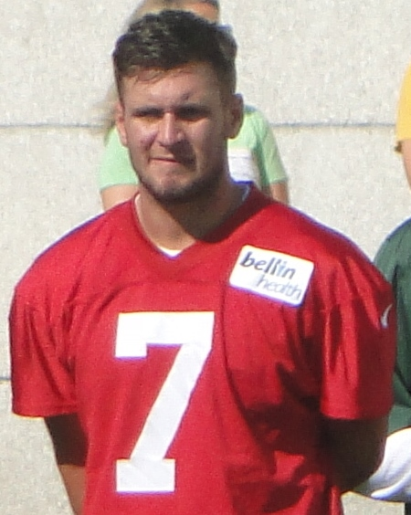 Green Bay Packers backup quarterback Chase Rettig observes from the sidelines at training camp in 2014.